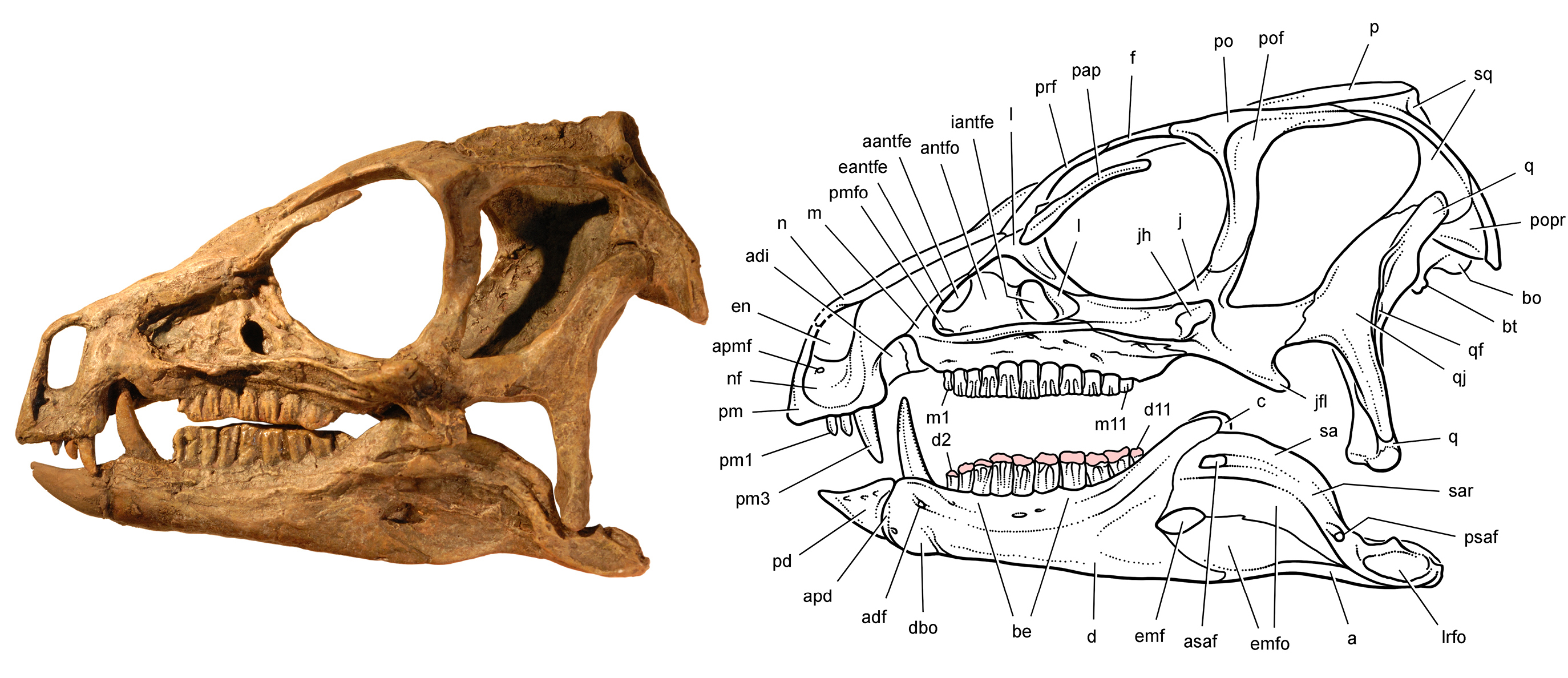 Skull of Heterodontosaurus tucki from the Lower Jurassic Upper Elliot and Clarens formations of South Africa. Cast of the cranium and lower jaws of adult specimen SAM-PK-K1332 and new skull reconstruction in lateral view showing the dentition with intermediate wear (scleral ring not shown). Pink tone indicates wear facets. Abbreviations: a angular aantfe accessory antorbital fenestra adf anterior dentary foramen adi arched diastema antfo antorbital fossa apd articular surface for the predentary apmf anterior premaxillary foramen asaf anterior surangular foramen be buccal emargination bo basioccipital bt basal tubera c coronoid d dentary d2, d11 dentary tooth 2, 11 dbo dentary boss eantfe external antorbital fenestra emf external mandibular fenestra emfo external mandibular fossa en external naris f frontal iantfe internal antorbital fenestra j jugal jfl jugal flange jh jugal horn l lacrimal lrfo lateral retroarticular fossa m maxilla m1, 11 maxillary tooth 1, 11 n nasal nf narial fossa p parietal pap palpebral pd predentary pm premaxilla pm1, 3 premaxillary tooth 1, 3 pmfo promaxillary fossa po postorbital pof postorbital fossa popr paroccipital process prf prefrontal psaf posterior surangular foramen q quadrate qf quadrate foramen qj quadratojugal sa surangular sar surangular ridge sq squamosal.